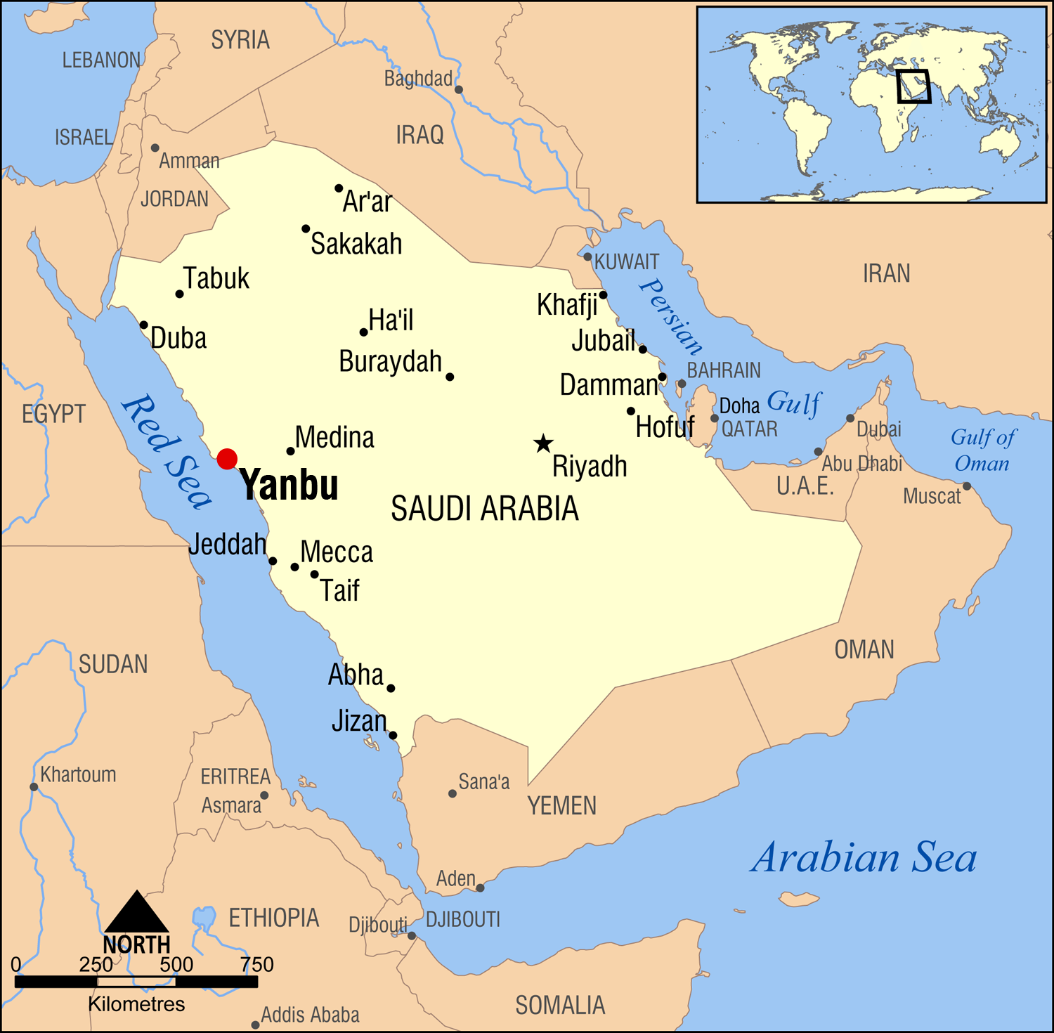 Locator map of Yanbu, Saudi Arabia. Created by NormanEinstein, May 5, 2006.